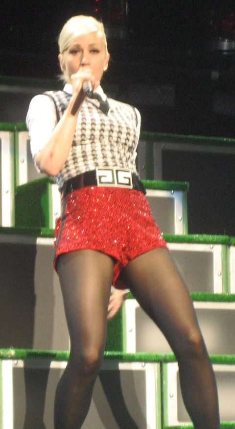 Gwen Stefani, sing Hollaback girl during The Sweet Escape Tour